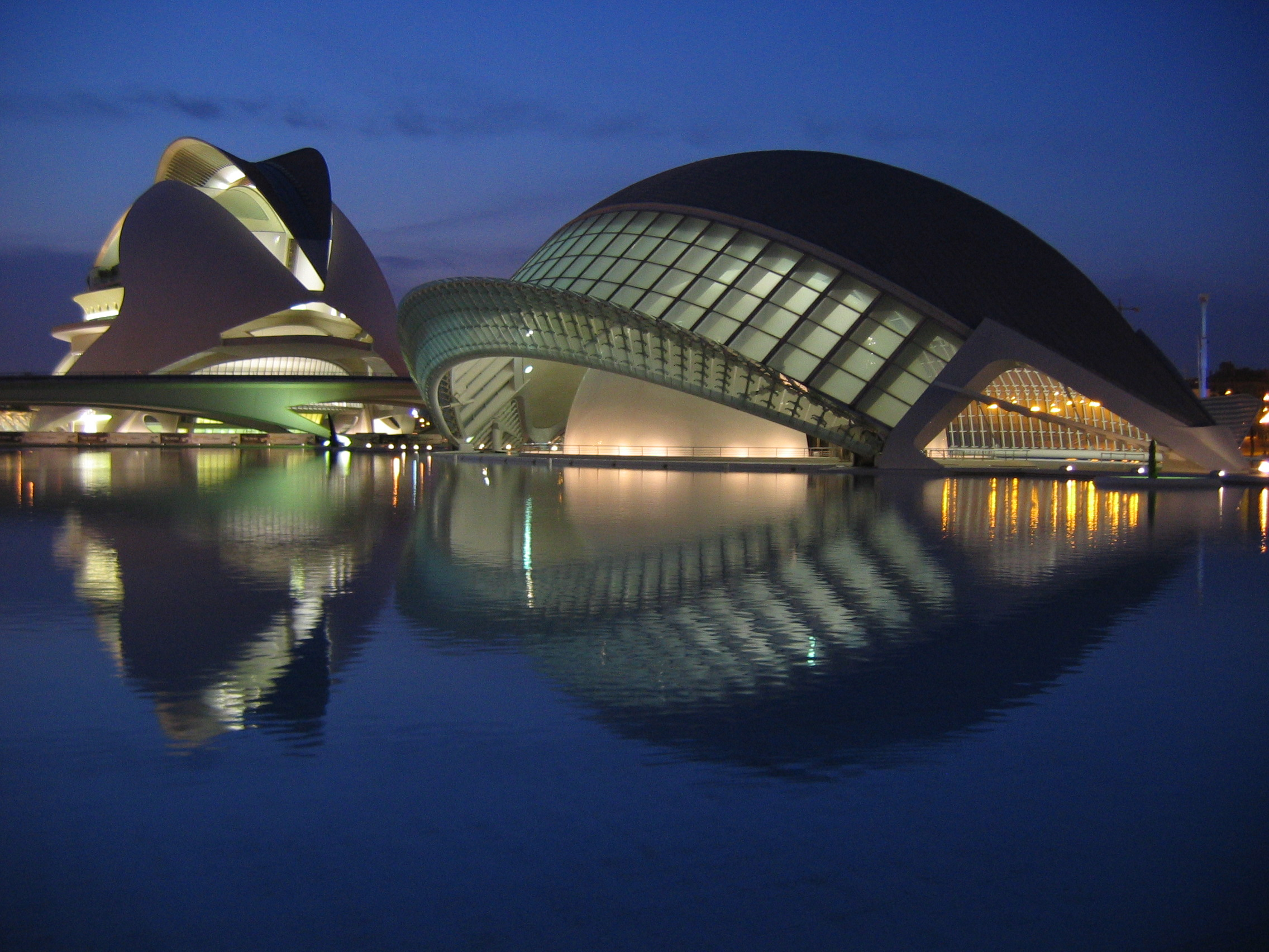 Author Chosovi